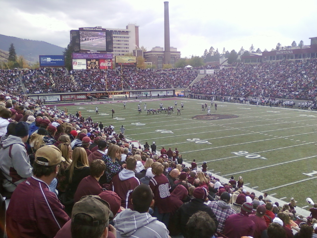 View of Washington-Grizzly Stadium in Missoula, Montana from the northeast corner on October 23, 2010. The Grizzlies scored on this drive in the final seconds to defeat The Northern Arizona University Lumberjacks.